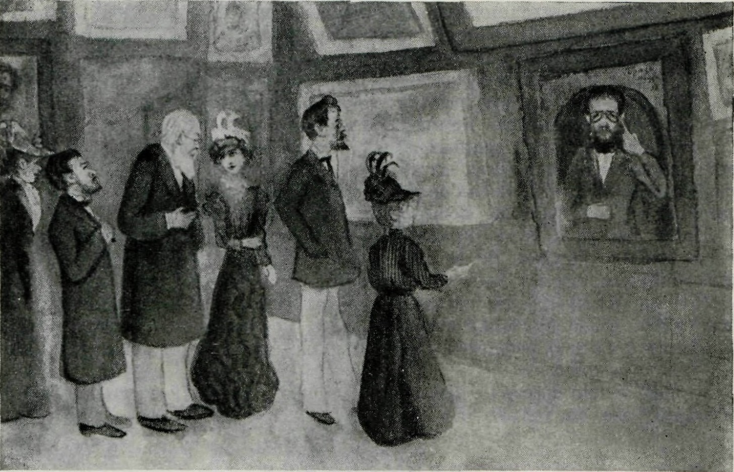 Anton Chekhov looking at his portrait in Tretyakov gallery in Moscow, a work by O. Braz. Caricature (aquarelle) by A. Khotyaintseva. 1898. Chekhov house-museum, Moscow